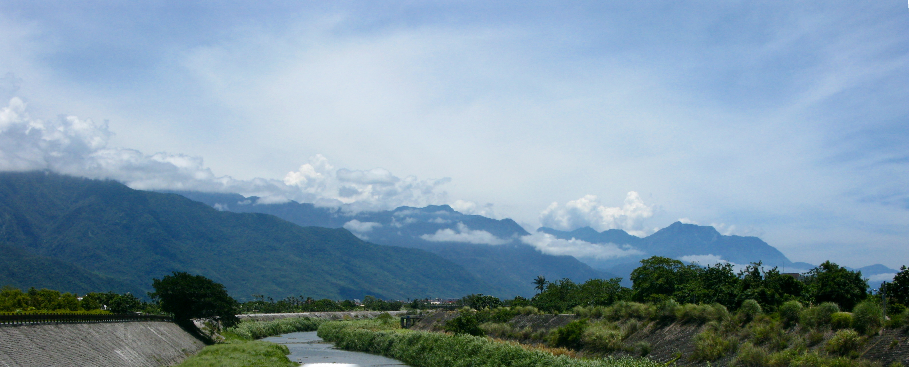 Ji-an runlet, Taiwan.